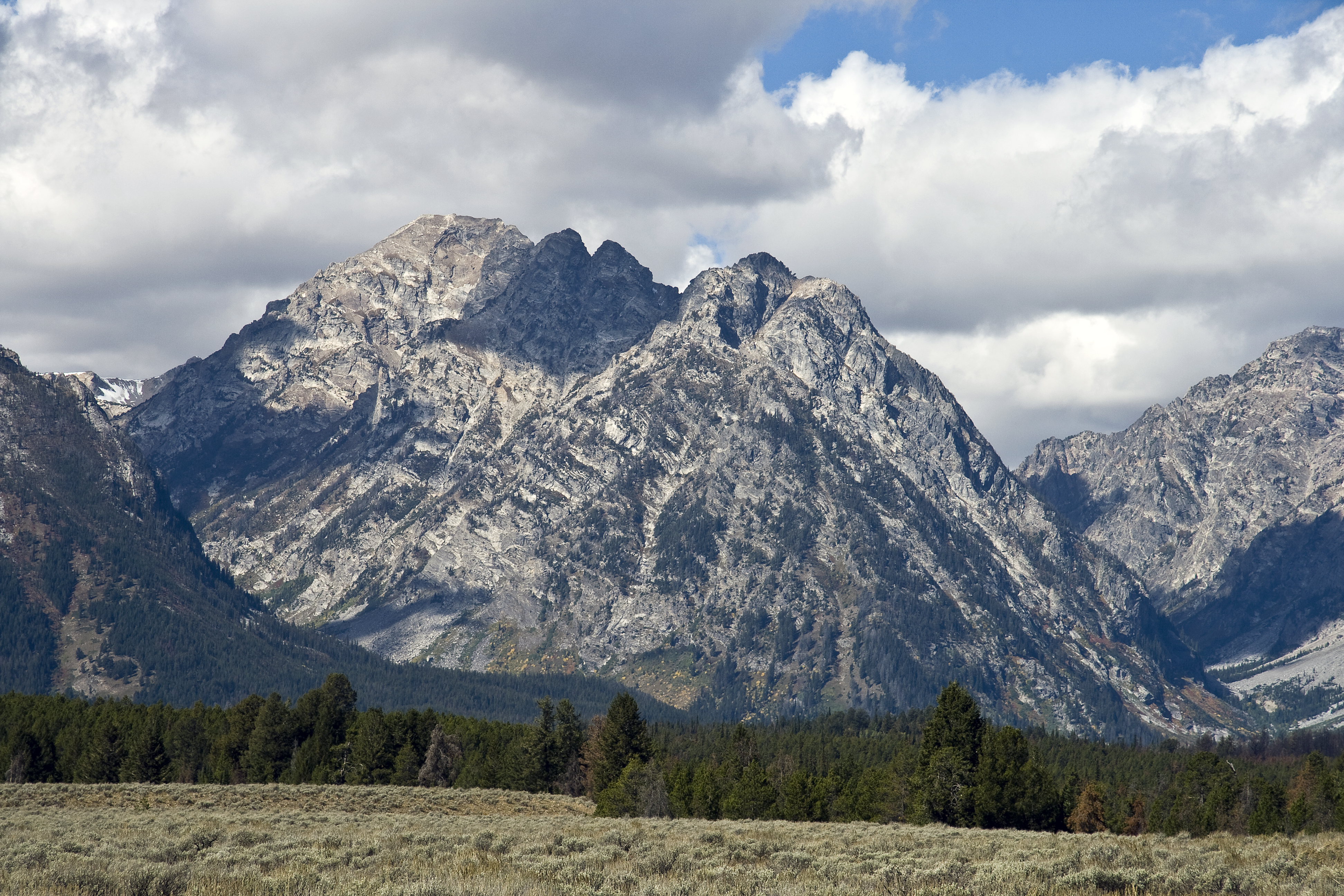 Mount Woodring in Grand Teton National Park, Wyoming, USA. Paintbrush Canyon to the left and Snowshoe Canyon to the right.